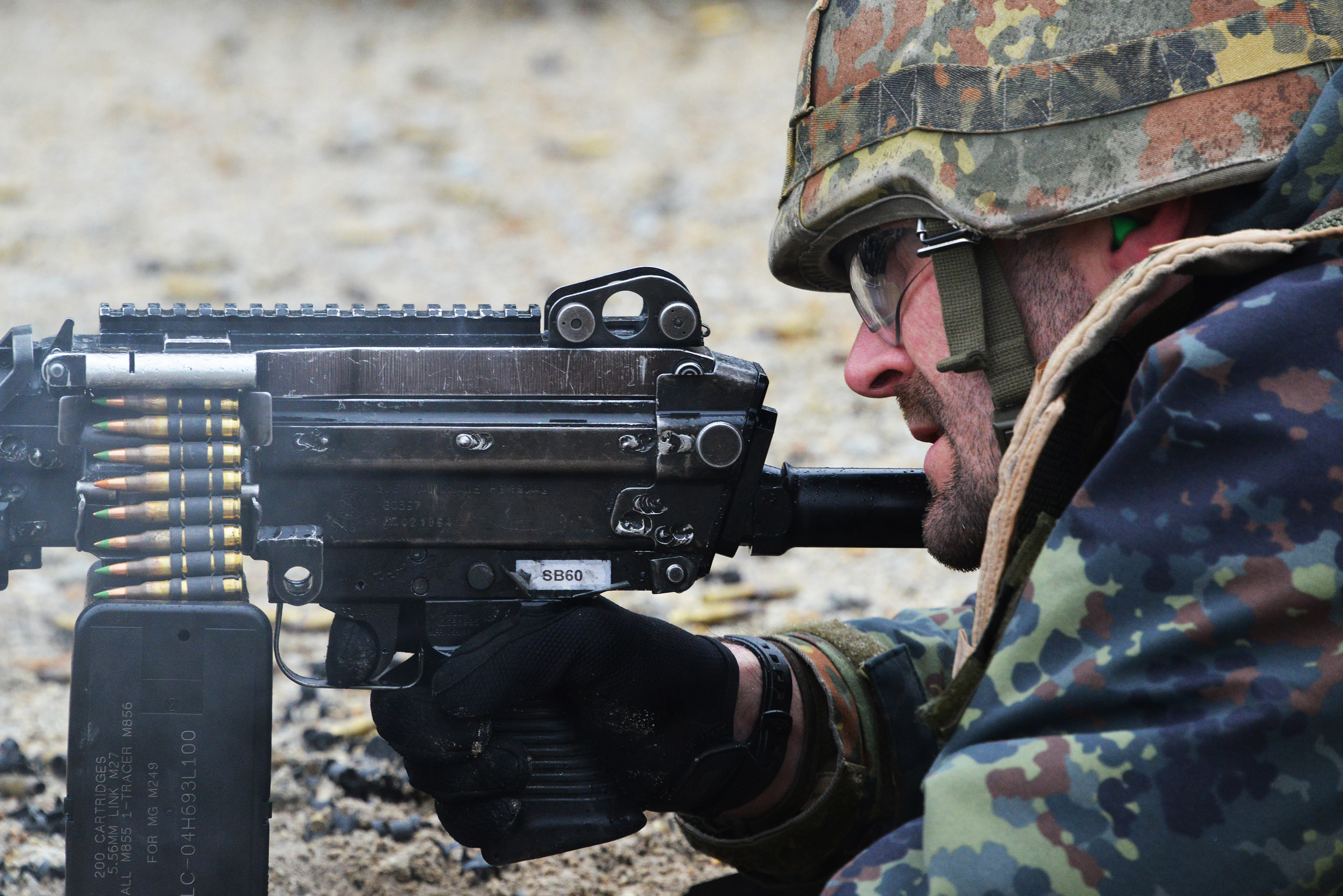 A German soldier fires a M249 light machine gun during a familiarization training on U.S. weapons at the 7th Army Joint Multinational Training Command Grafenwoehr Training Area, Germany, Dec. 9, 2015. M27 links connect up to 200 5.56×45mm NATO rounds (4 × M855 Ball : 1 M856 Tracer) contained in an ammunition box used to feed a M249 light machine gun. (U.S. Army photo by Visual Information Specialist Gertrud Zach/released) Unit: Training Support Activity Europe